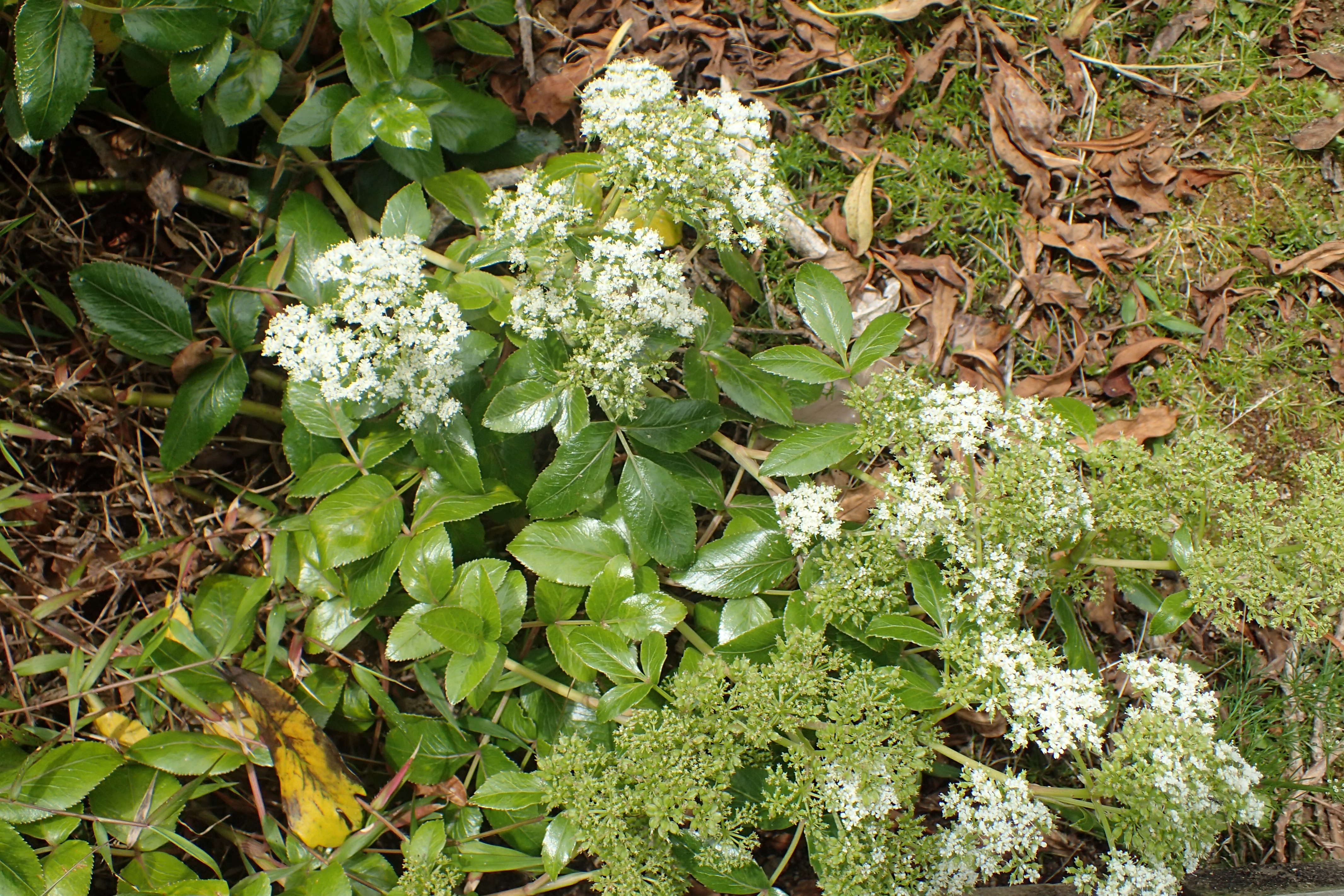 Scandia rosifolia in Auckland Botanic Gardens